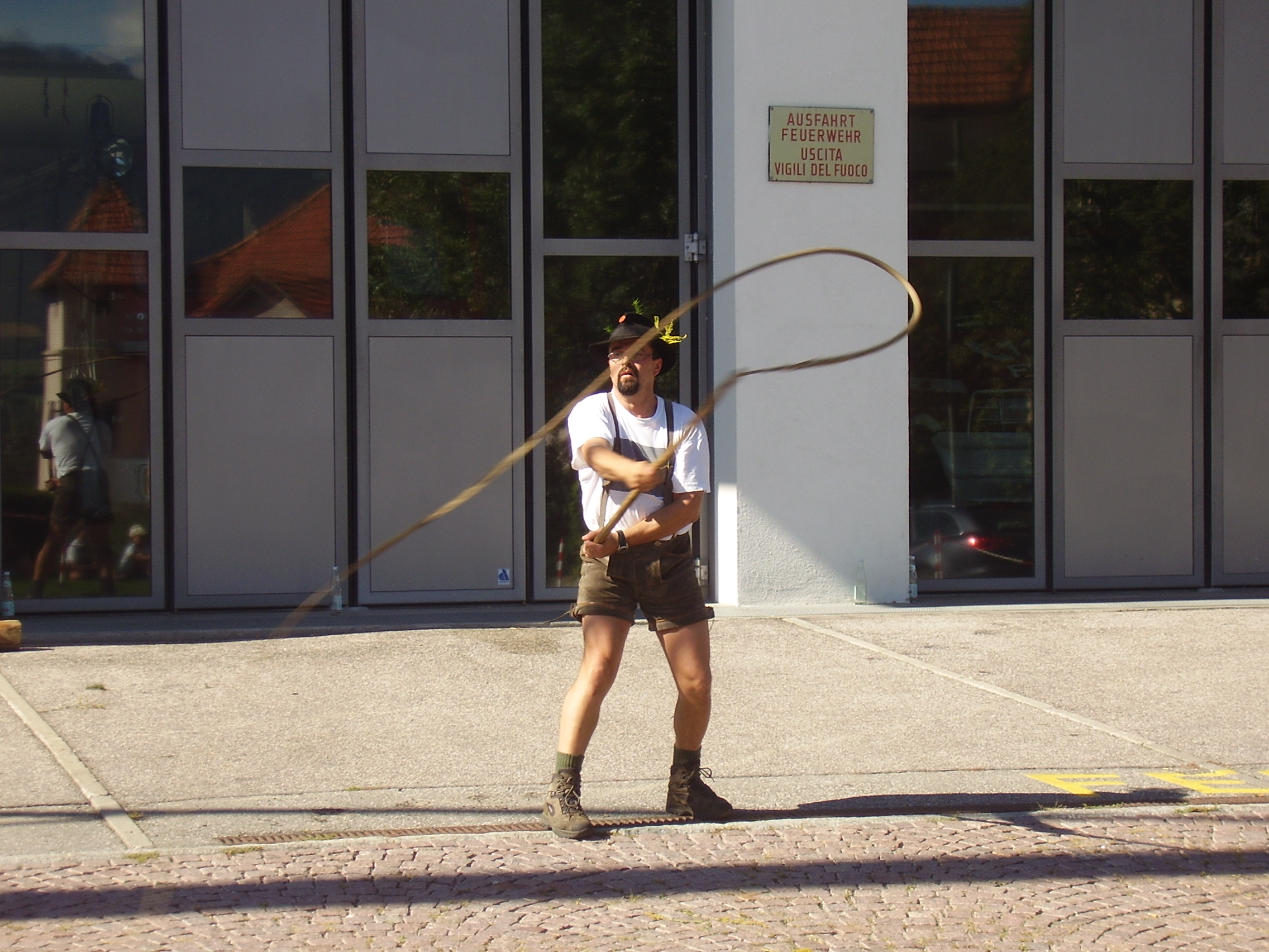 Whipcracking in St. Georgen (Bruneck, South Tyrol, Italy)